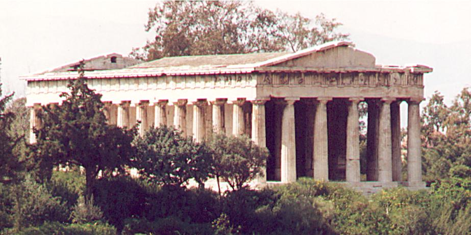 Theseion